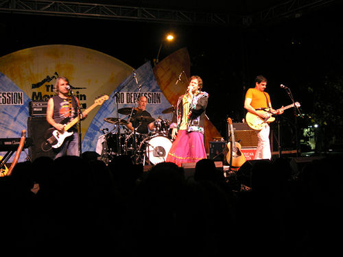 Hothouse Flowers playing at Bumbershoot 2005 from CC section of flickr.[1]